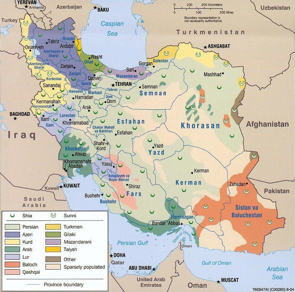 Iran — ethnoreligious distribution map. 2004 (English).